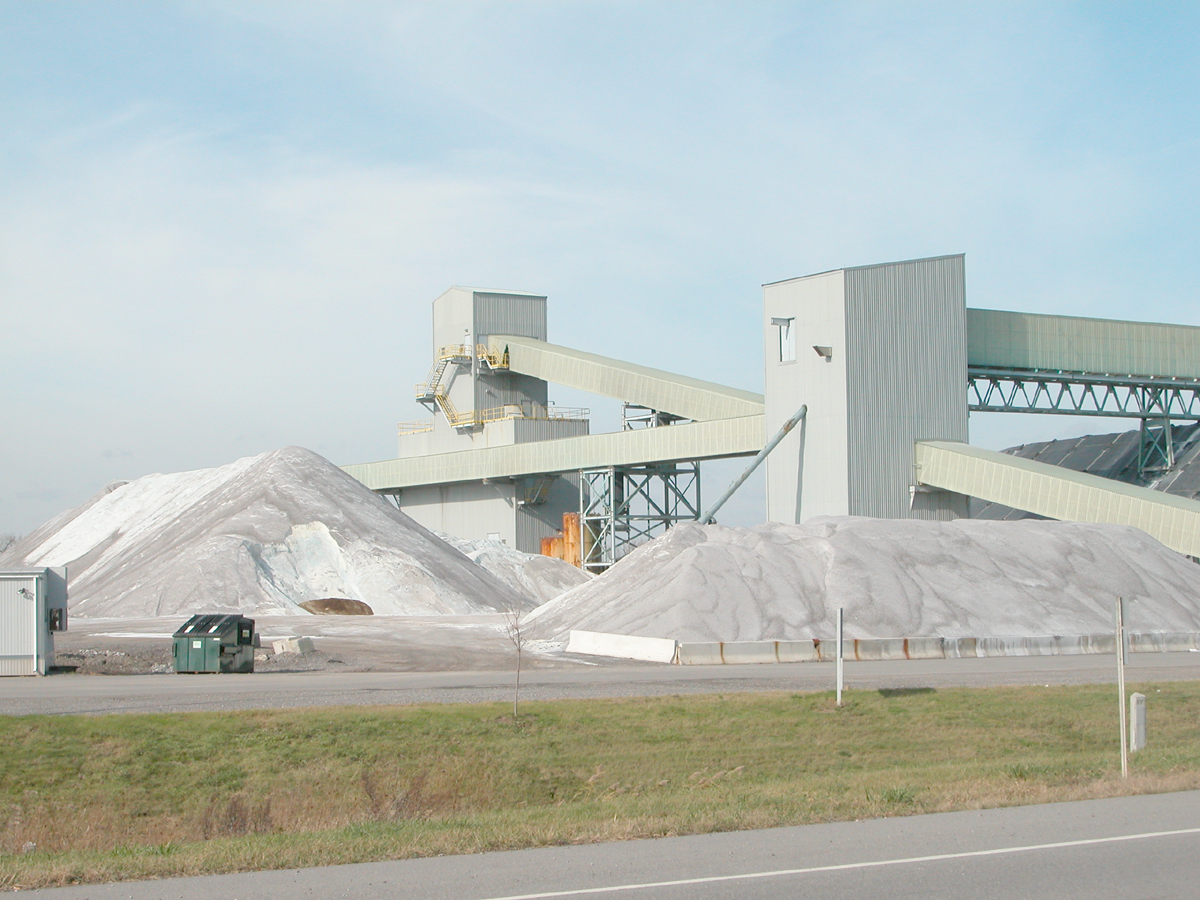 Rock salt mine near Mt. Morris American Rock Salt Company, Llc., Hampton Corners Mine